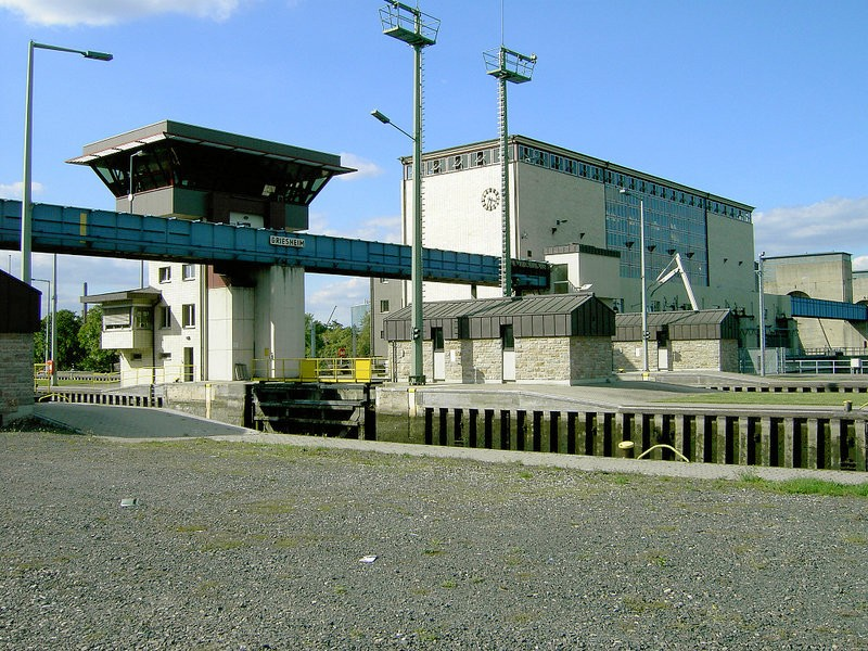 Main lock and run-of-the-river hydroelectricity plant at Griesheim